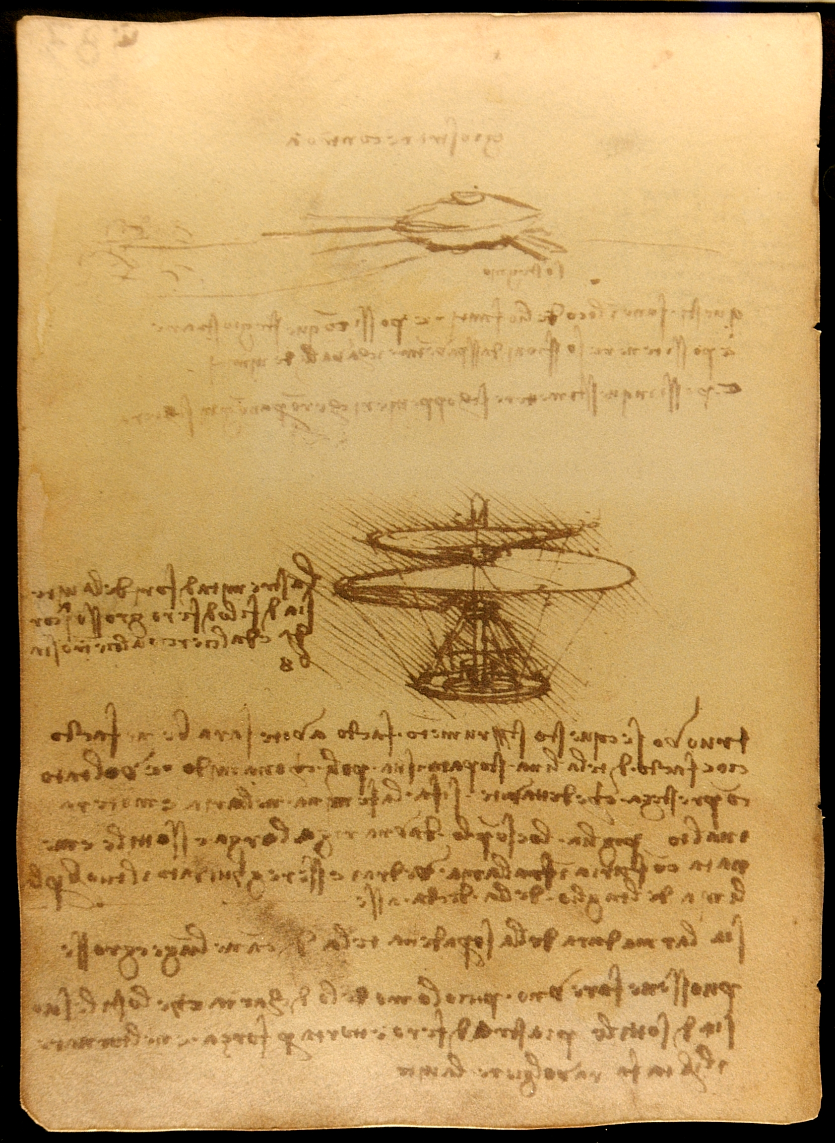 Air screw is a drawing Ms B 83v by Leonardo da Vinci 1486-1490.